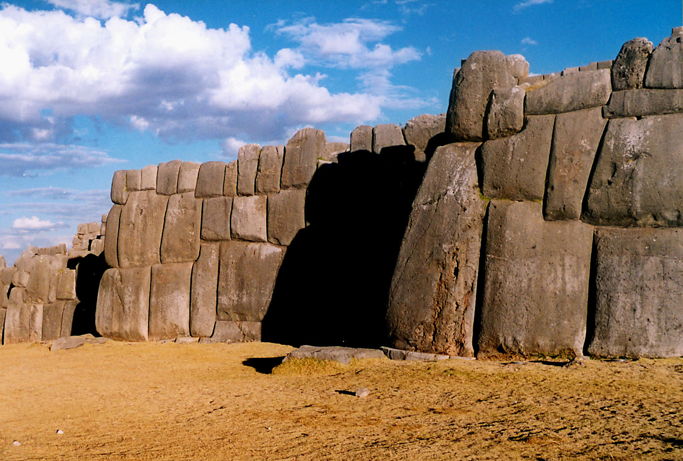 Sacsahuamán (Sacsayhuamán), Cusco, Peru. The photo was taken in June 2002 by Håkan Svensson (Xauxa).